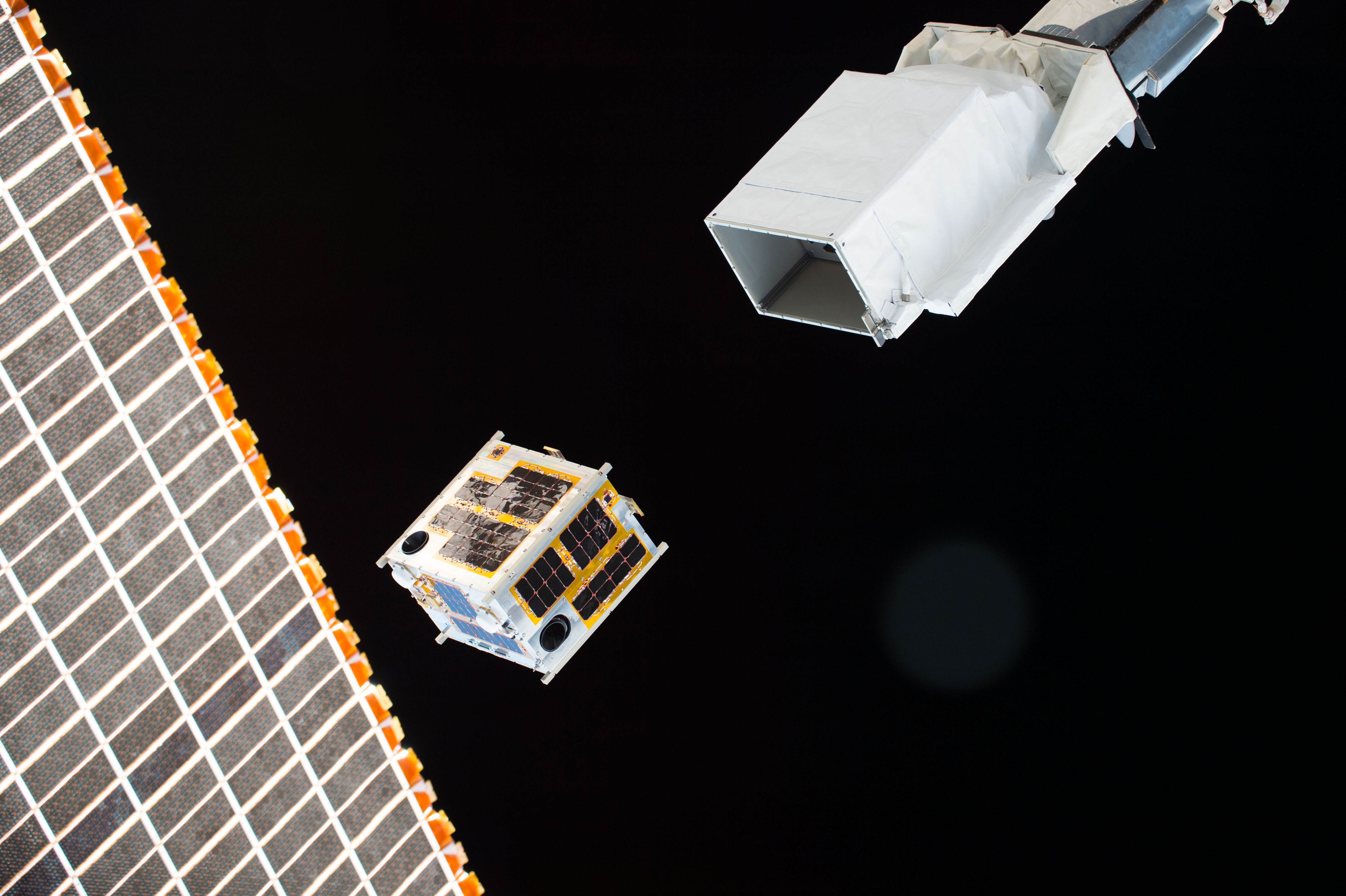 The DIWATA-1 satellite is deployed from outside of the Japanese Kibo modul. Intended to observe earth and monitor climate changes, this was the first microsatellite owned by the Philippine government that involved Filipino engineers in the development. It was a joint project between Philippine and Japanese universities.